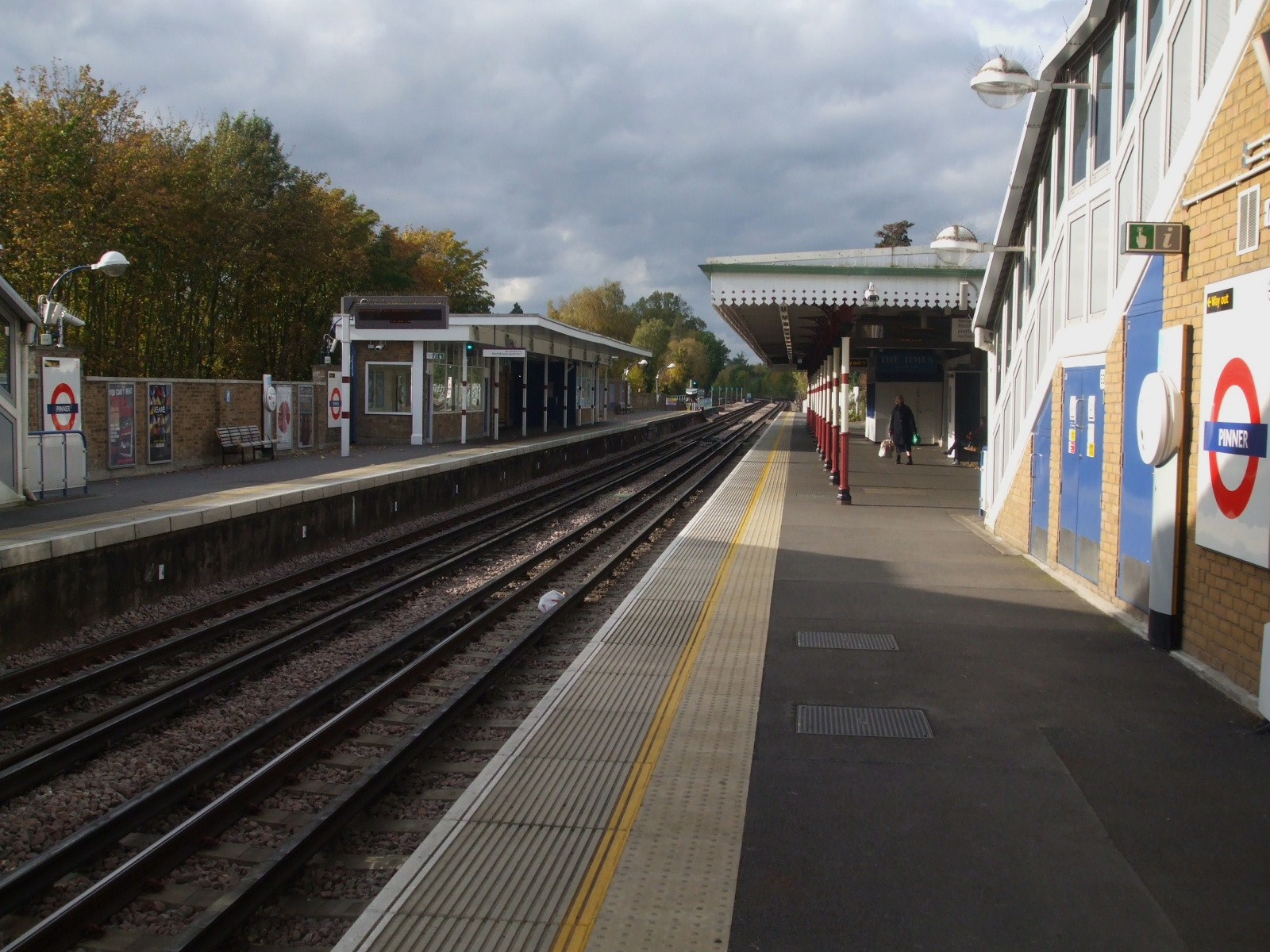 Pinner station looking west